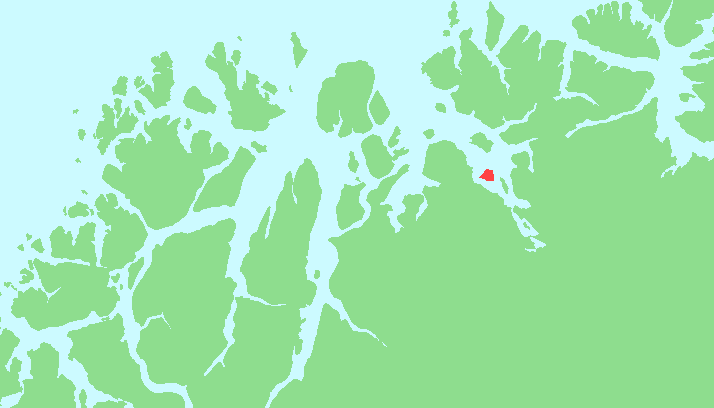 Locator map of Skorpa, Troms, Norway